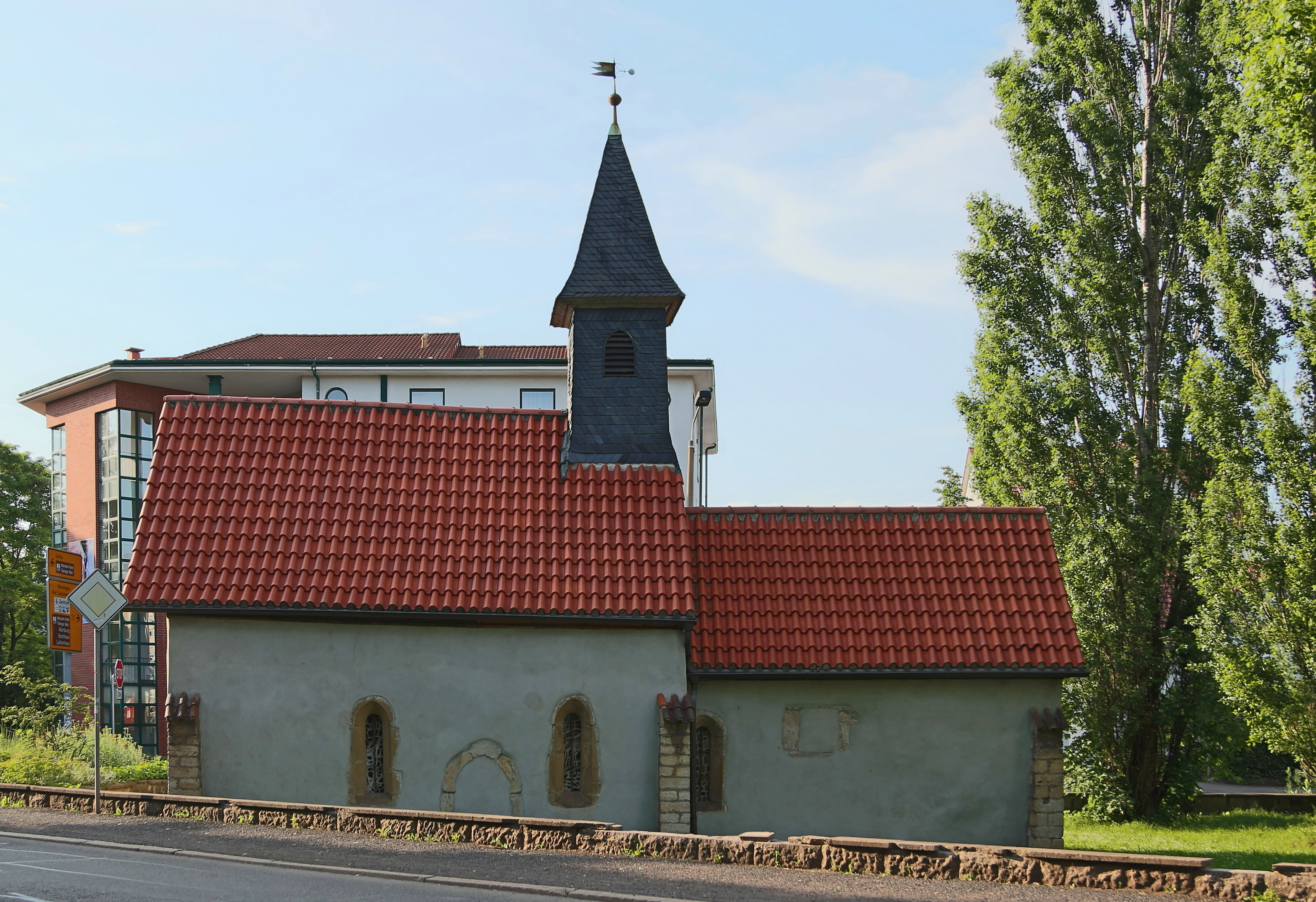 The Clemens Chapel (Clemenskapelle) in Eisenach, Thuringia, Germany.